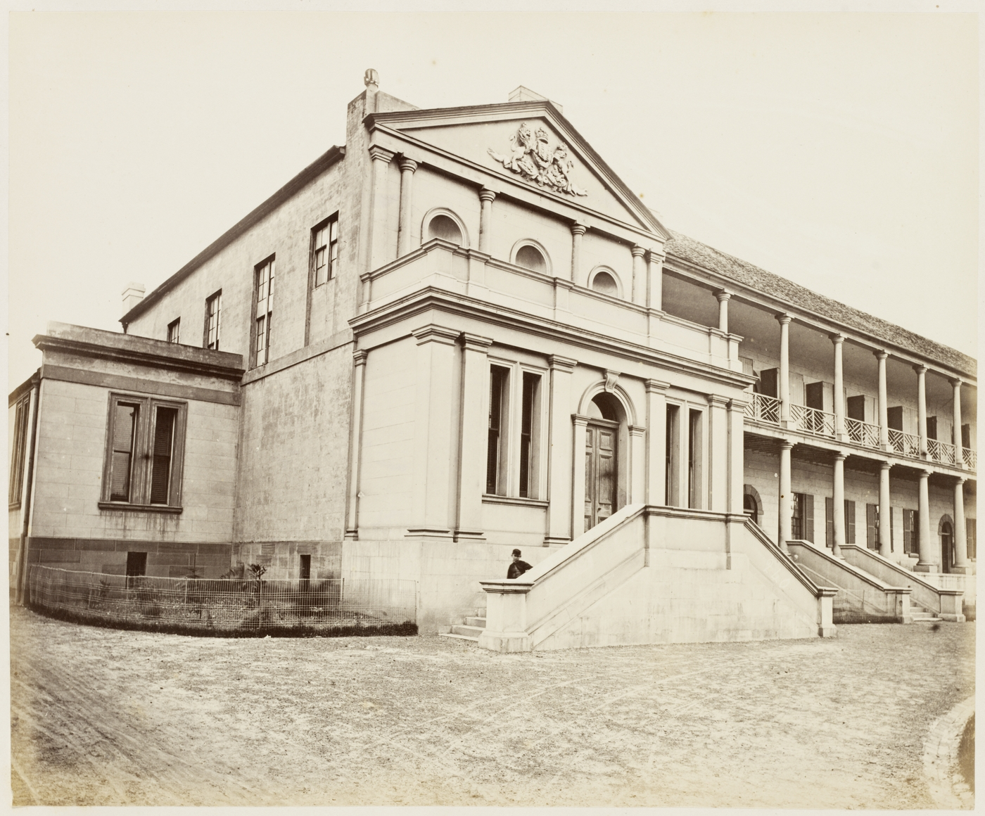 4. Legislative Assembly Chamber (Exterior) SH 549